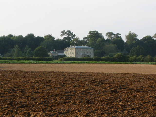 Hungerton Hall, Lincolnshire. In 1840, Hungerton Hall was reported to be "a neat mansion, finely embowered in trees". Note the colour of the iron rich soil in the foreground.